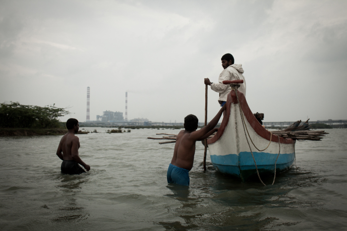 Due to siltation the creek has become very shallow, which makes fishing more difficult.